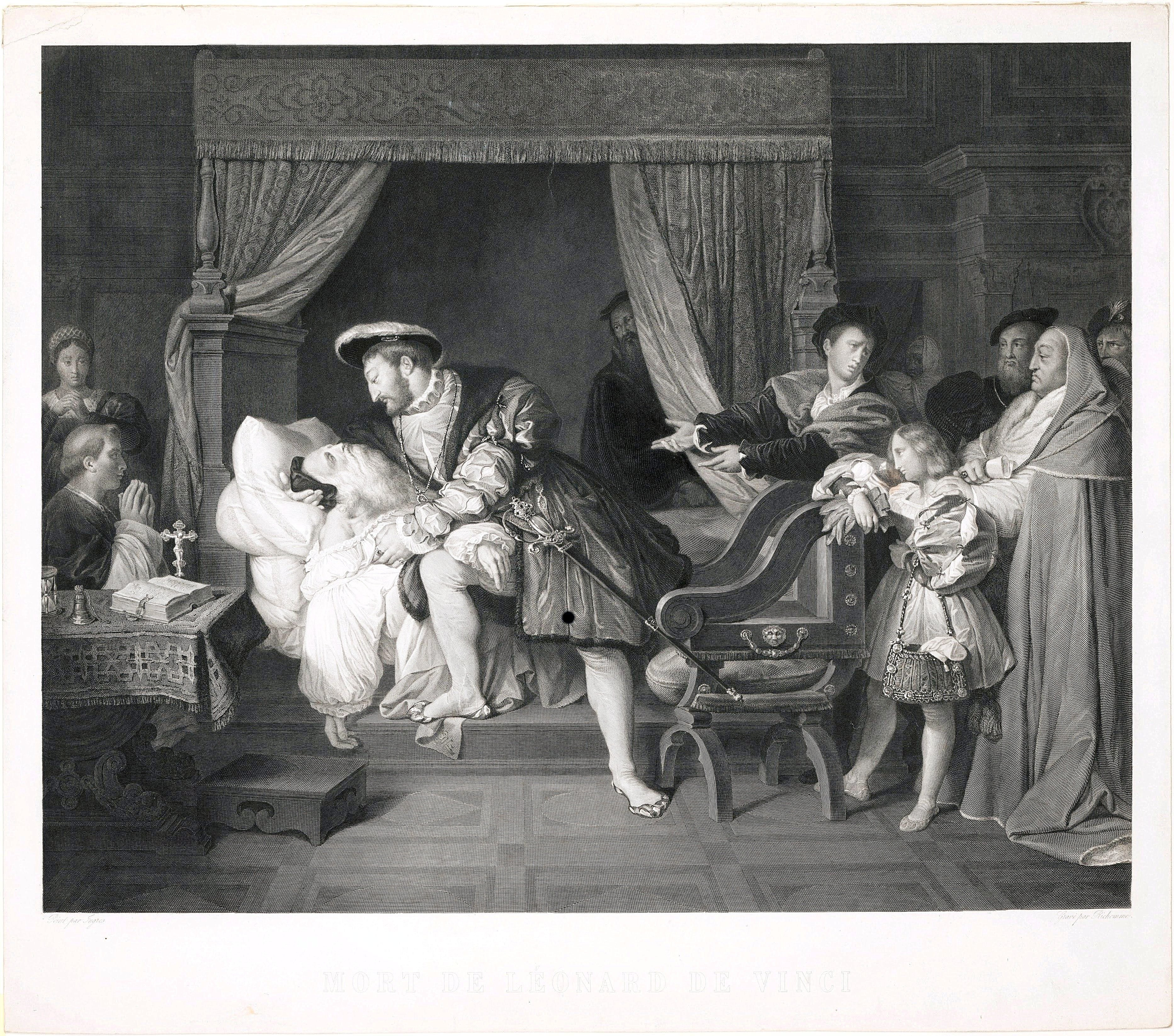 Title: The Death of Leonardo da Vinci Artist: Joseph Théodore Richomme (French, Paris 1785–1849 Paris) Artist: After Jean Auguste Dominique Ingres (French, Montauban 1780–1867 Paris) Subject: Leonardo da Vinci (Italian, Vinci 1452–1519 Amboise) Medium: Etching and engraving Dimensions: Sheet: 18 7/16 × 20 7/8 in. (46.8 × 53.1 cm) Image: 15 1/2 × 19 1/2 in. (39.4 × 49.5 cm)